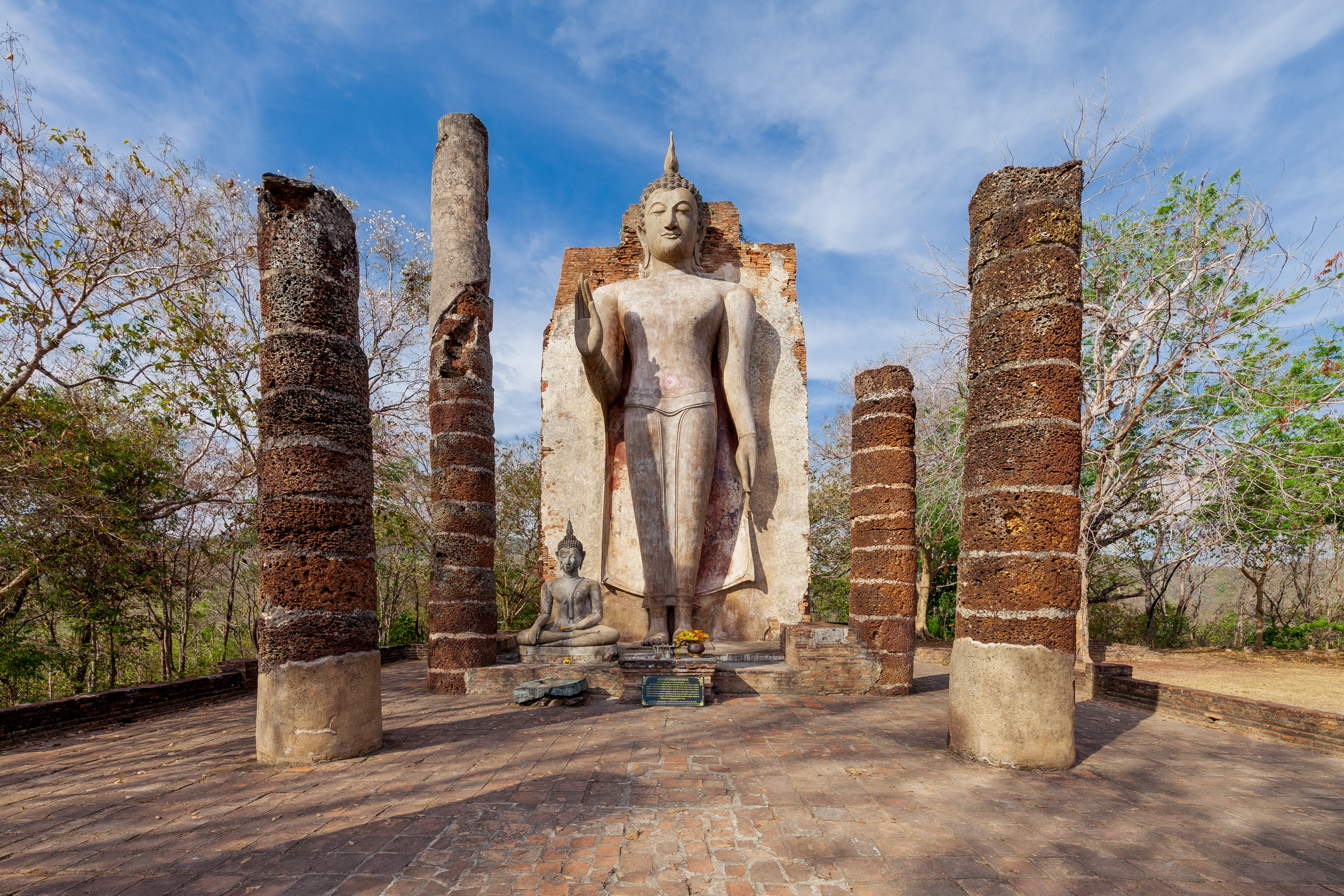 Wat Saphan Hin, Mueang Sukhothai District, Sukhothai Province, northern Thailand.